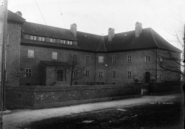 Tønsberg Sjømannsskole